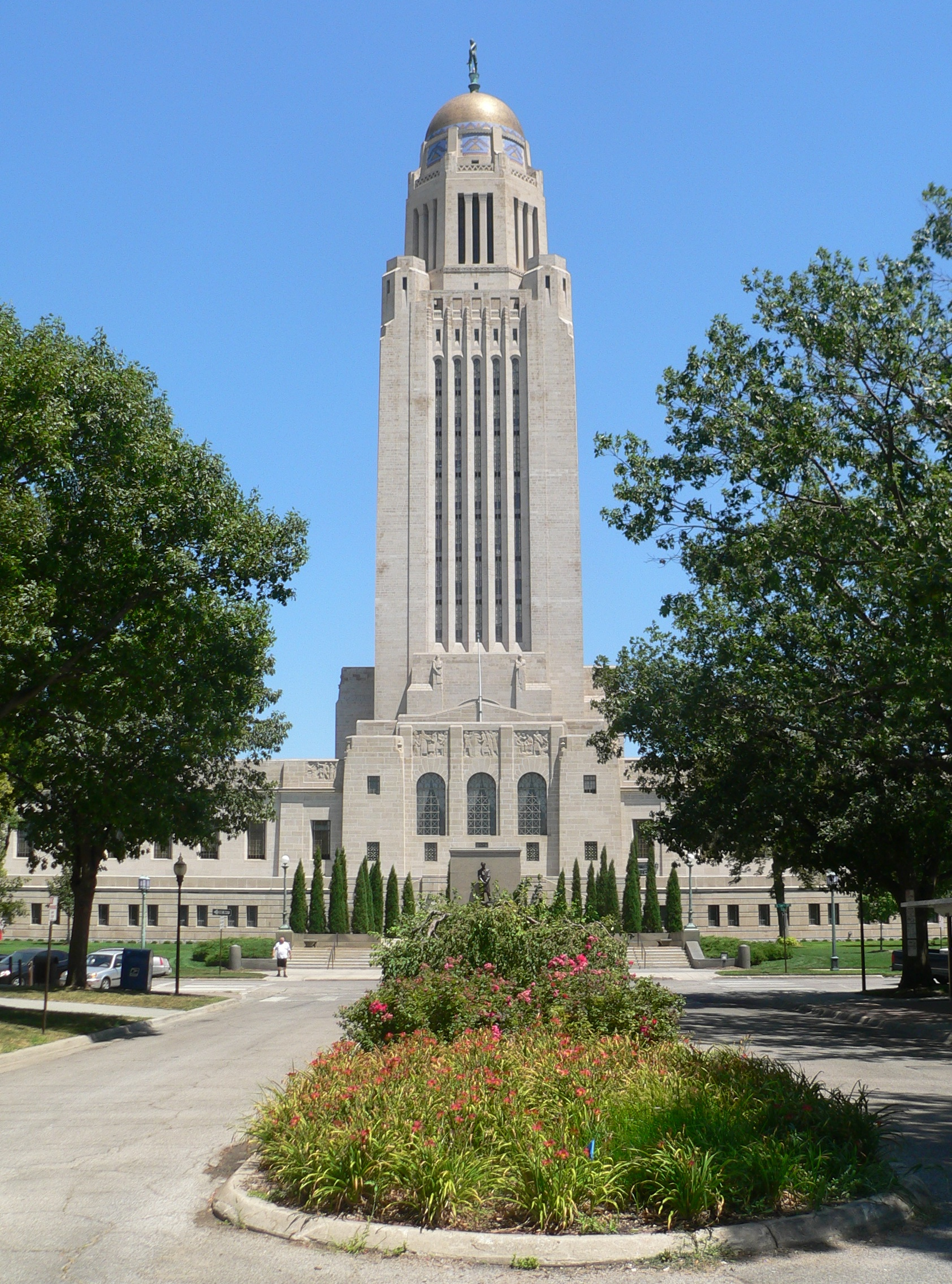 Nebraska State Capitol in Lincoln, Nebraska; seen from the west, looking east along Lincoln Mall from about 13th Street.